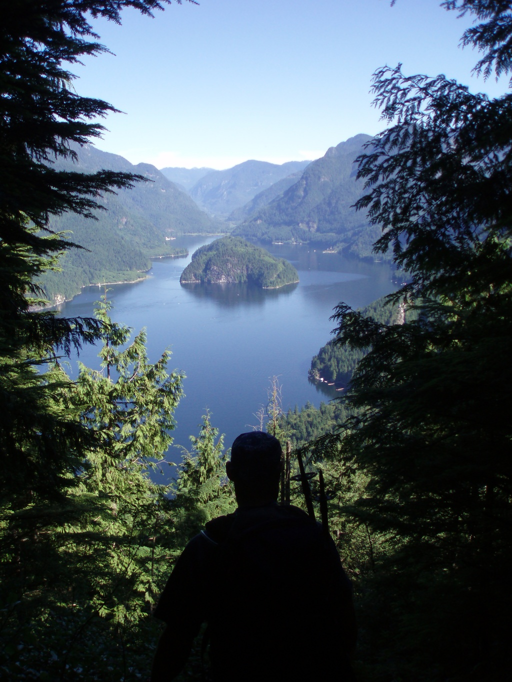 Photo of the northern portion of Indian Arm, a branch of Burrard Inlet near Vancouver, British Columbia